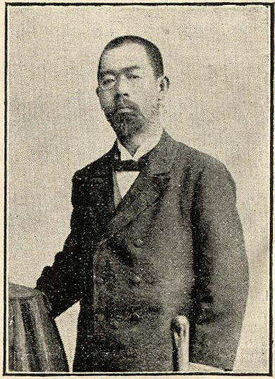 Asahina Chisen(朝比奈知泉) was a Japanese journalist in Meiji era.